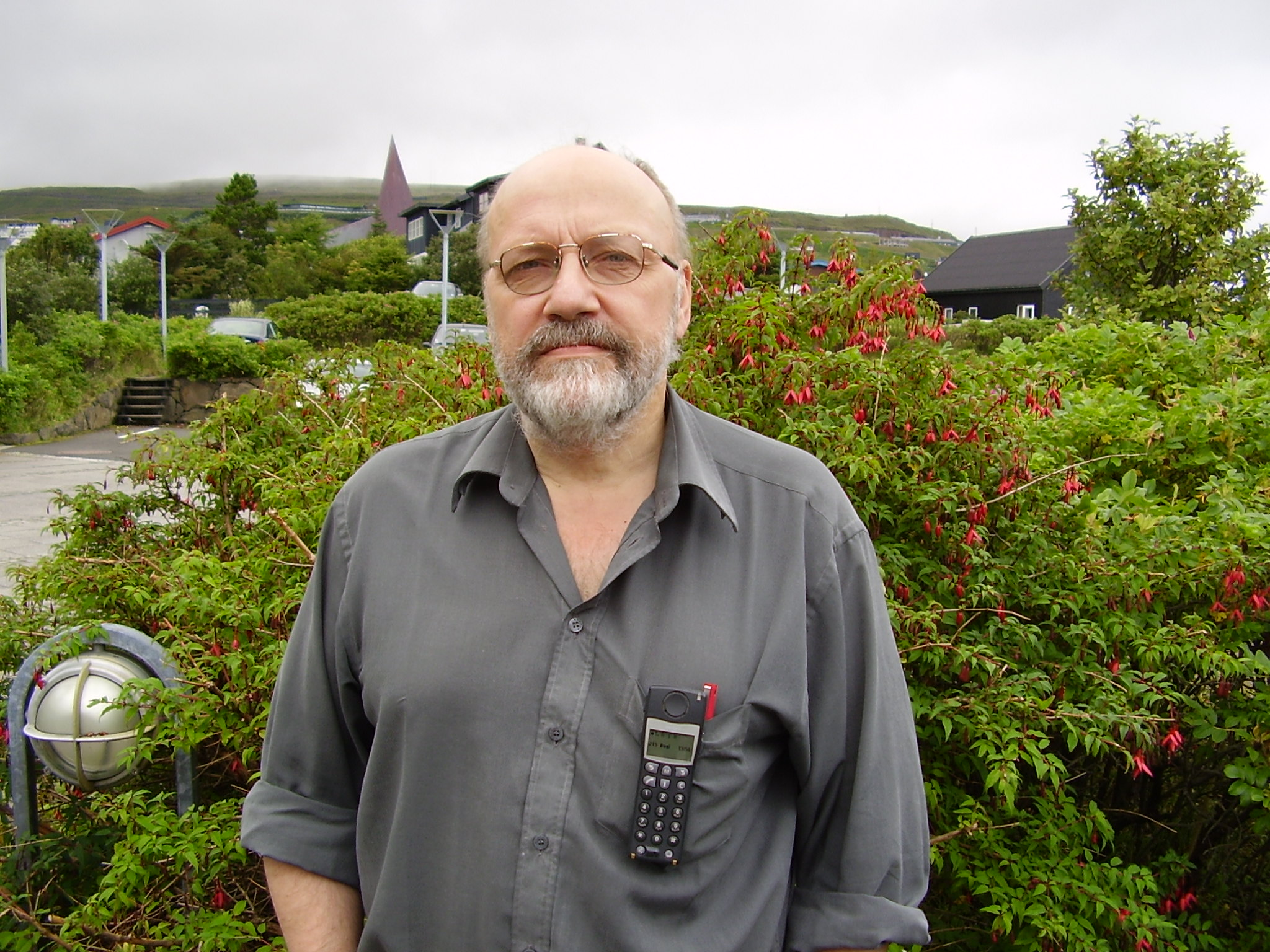 Bogi Hansen The Faroese professor, author and debater